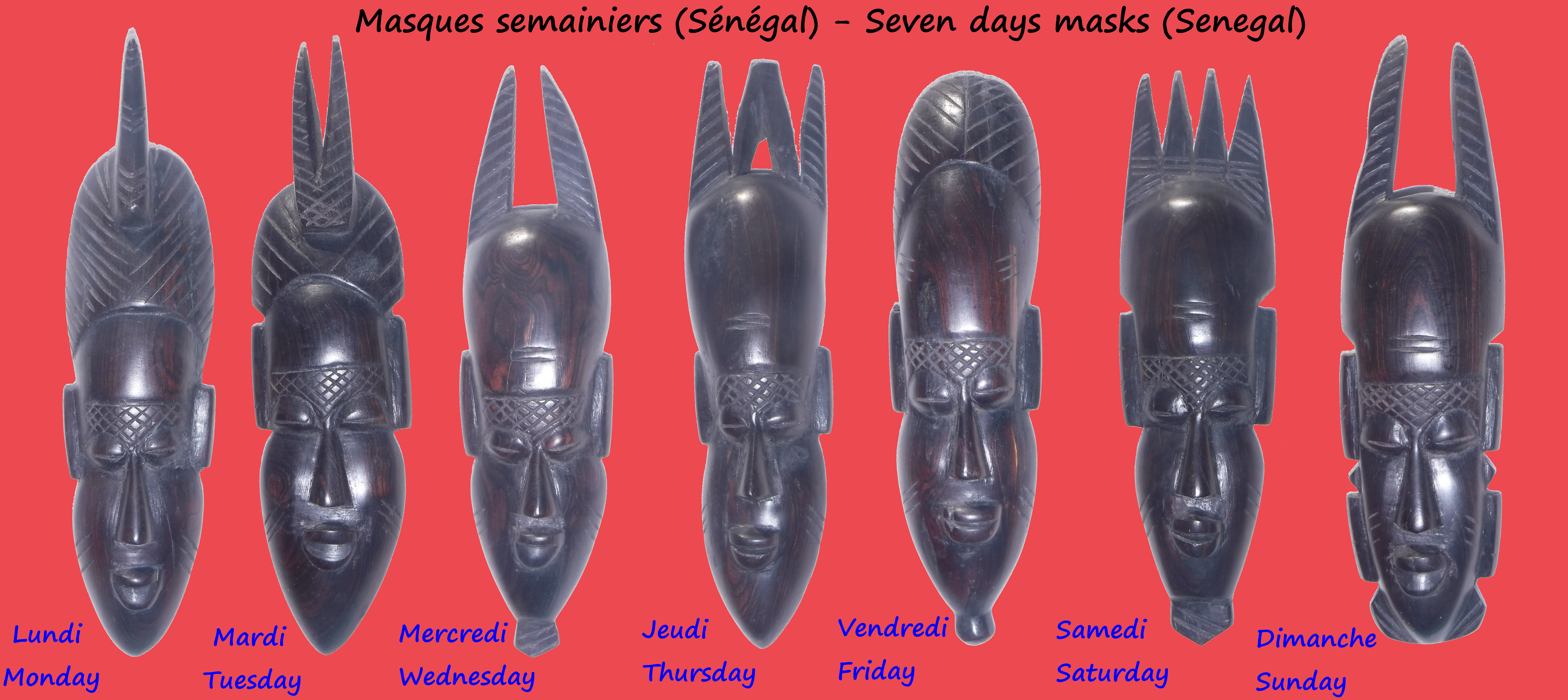 Weekly masks or seven days masks: set of seven masks, each of which represents a day of the week in chronological order from Monday to Sunday. All masks have arms symbolized on each side at eye level. In addition, the Sunday mask has got clothes (side ornaments between the nose and the mouth) and legs all the way down (from the lower lip to the chin).